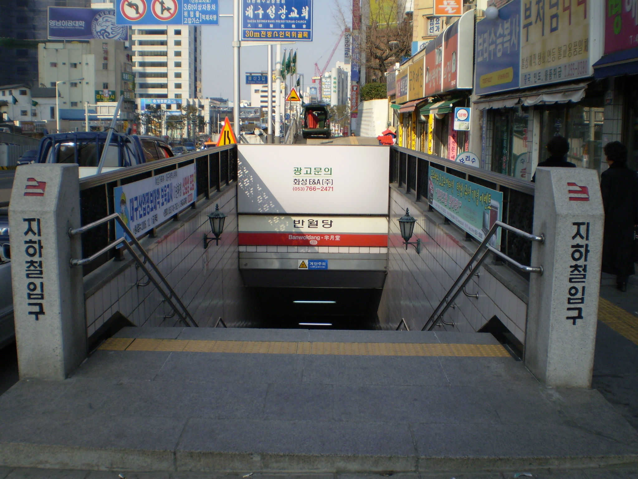 Entrance to Banwoldang subway station in Daegu, South Korea.